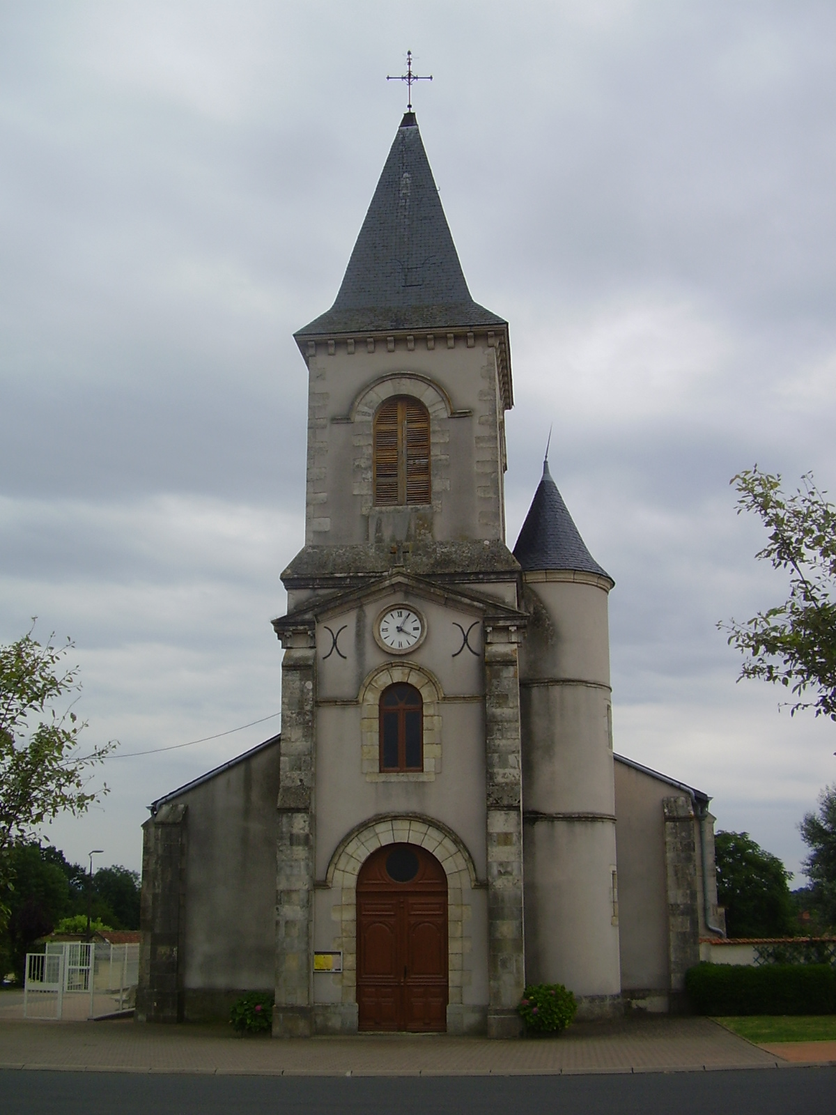 Church of Saint-Sylvestre-Pragoulin, Puy-de-Dôme, Auvergne, France